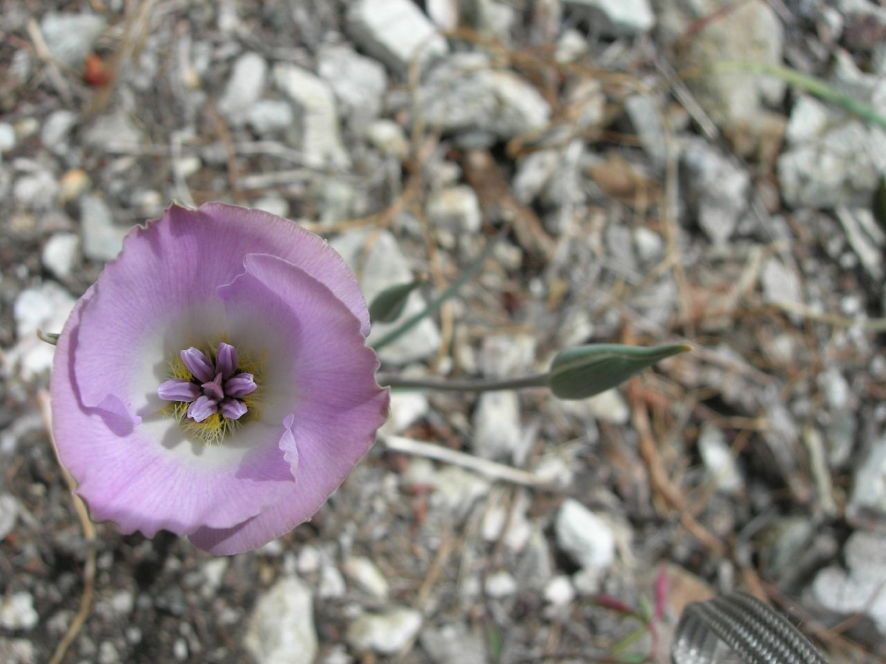 Calochortus invenustus, Middle Fork of Lytle Creek, CA, May 27, 2006.